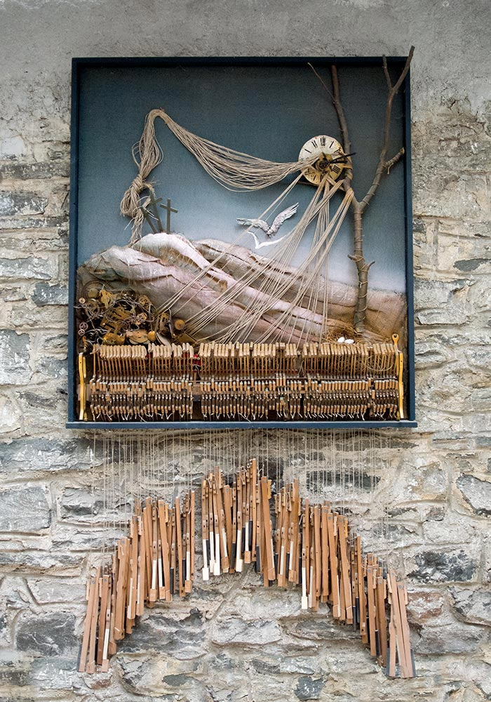 Lubo Kristek: On the Landfill of Ages, 1994, assemblage, 250×130×30 cm